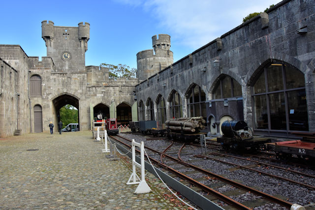 Outside artefacts in Penrhyn Castle railway museum